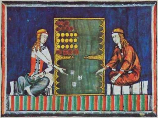 The game of seis, dos, y as from the Libro de los juegos. Folio 75 verso.